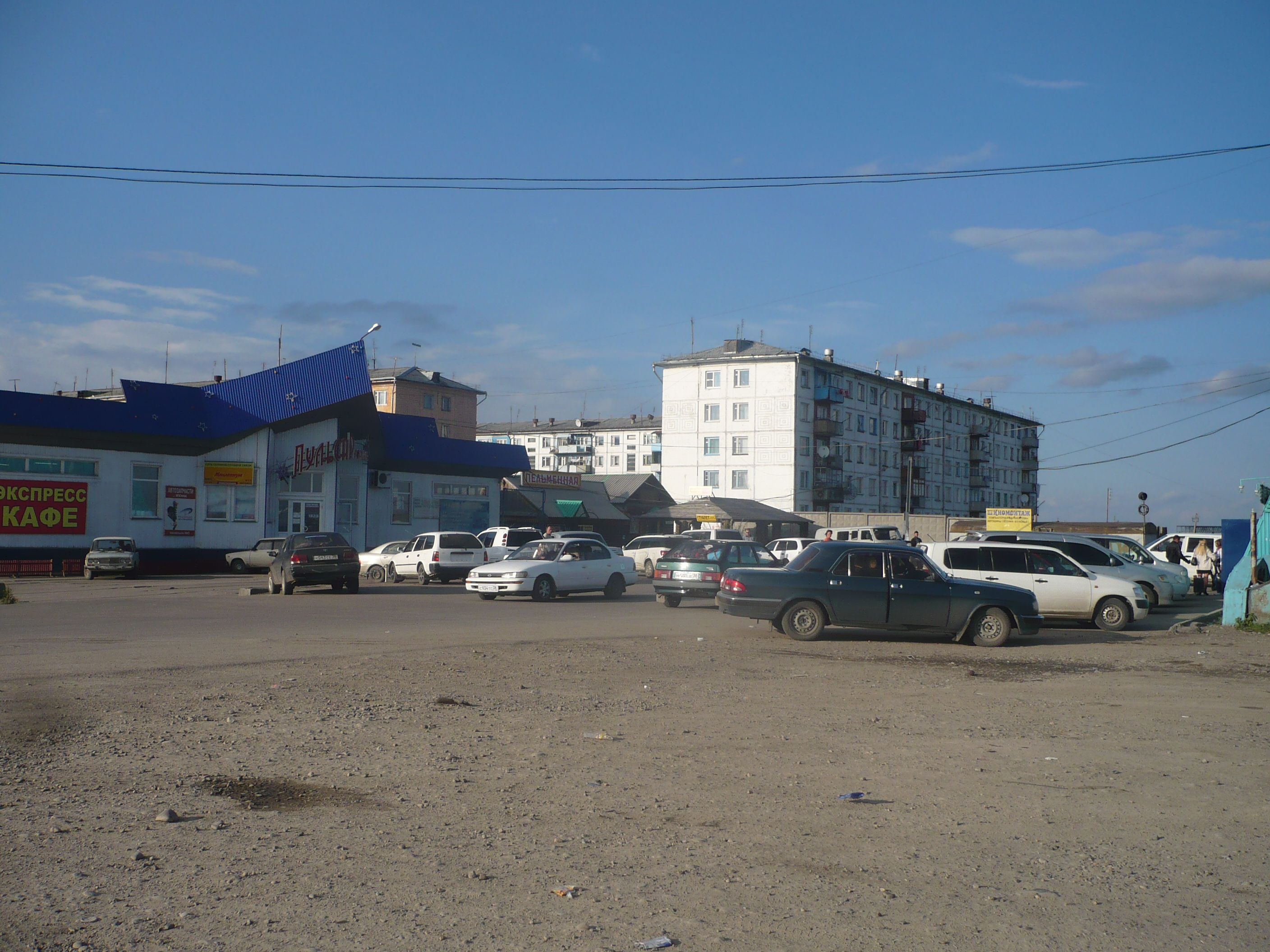 Village Sredny (Irkutsk region) at the entrance